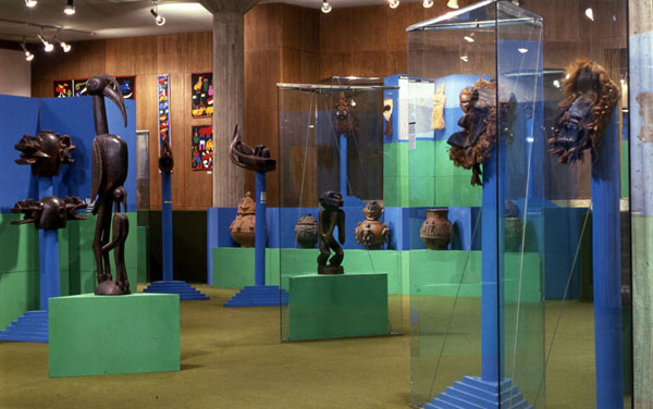 Permanent display of Museum of African Art - The Veda and Dr. Zdravko Pečar Collection